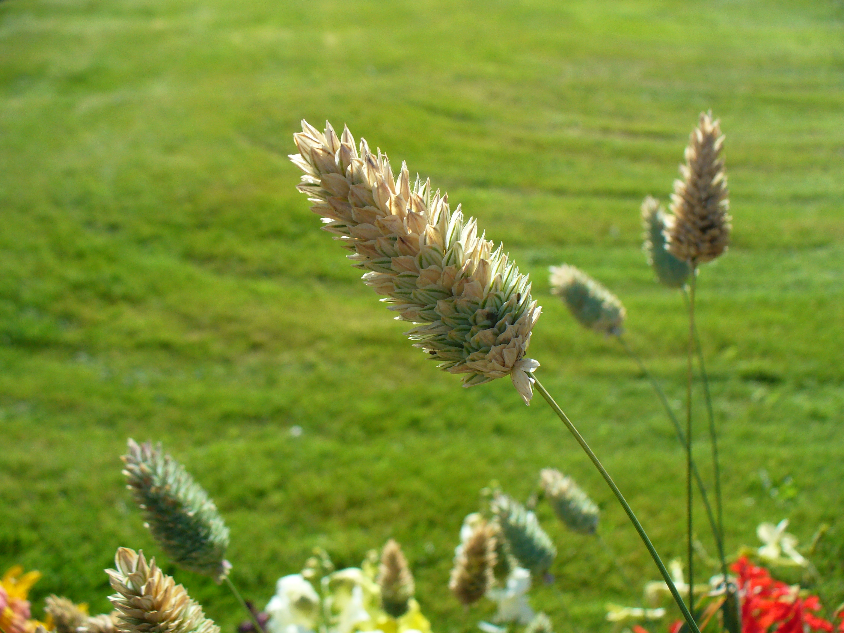 I am the originator of this photo. I hold the copyright. I release it to the public domain. This photo depicts a Phalaris canariensis plant.